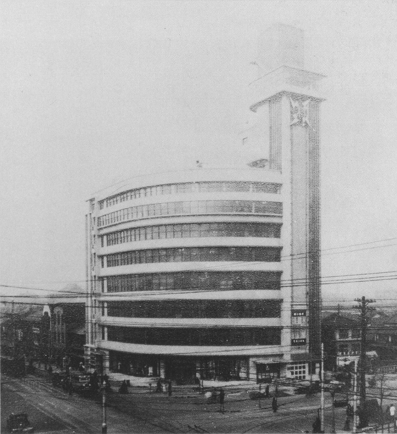 Osaka Electric Science Museum (taken in 1937).